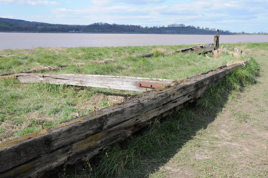 The hull of the Tirley